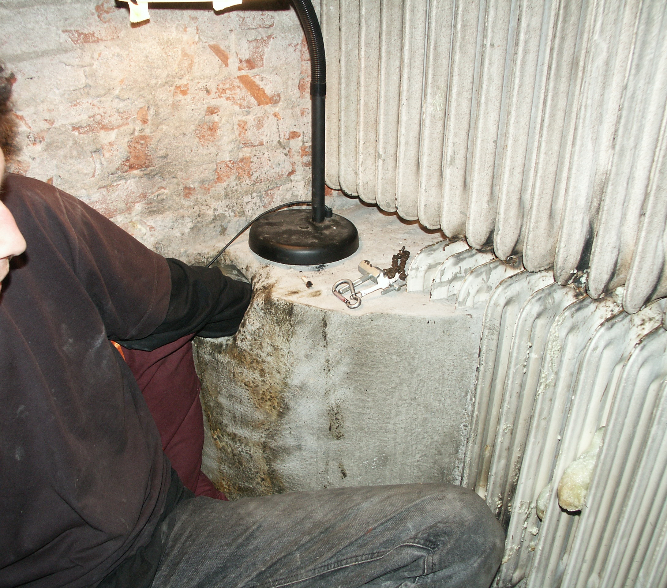 A squatter demostrates a lockon, used to delay the eviction of a squat in Utrecht, Netherlands. See also File:Lockon-afterwards.jpg